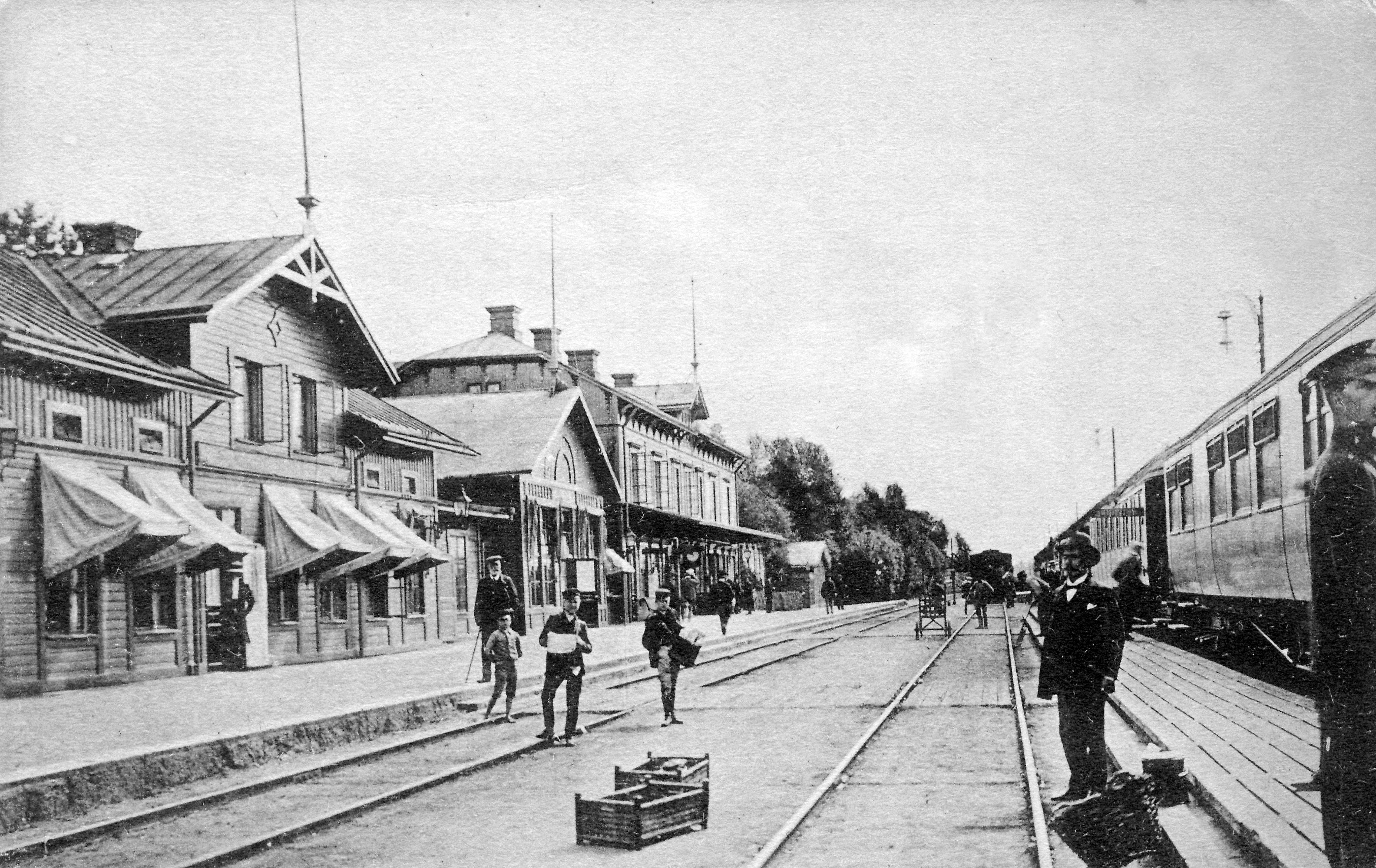 Tillberga railway station, a former junction in Västmanland